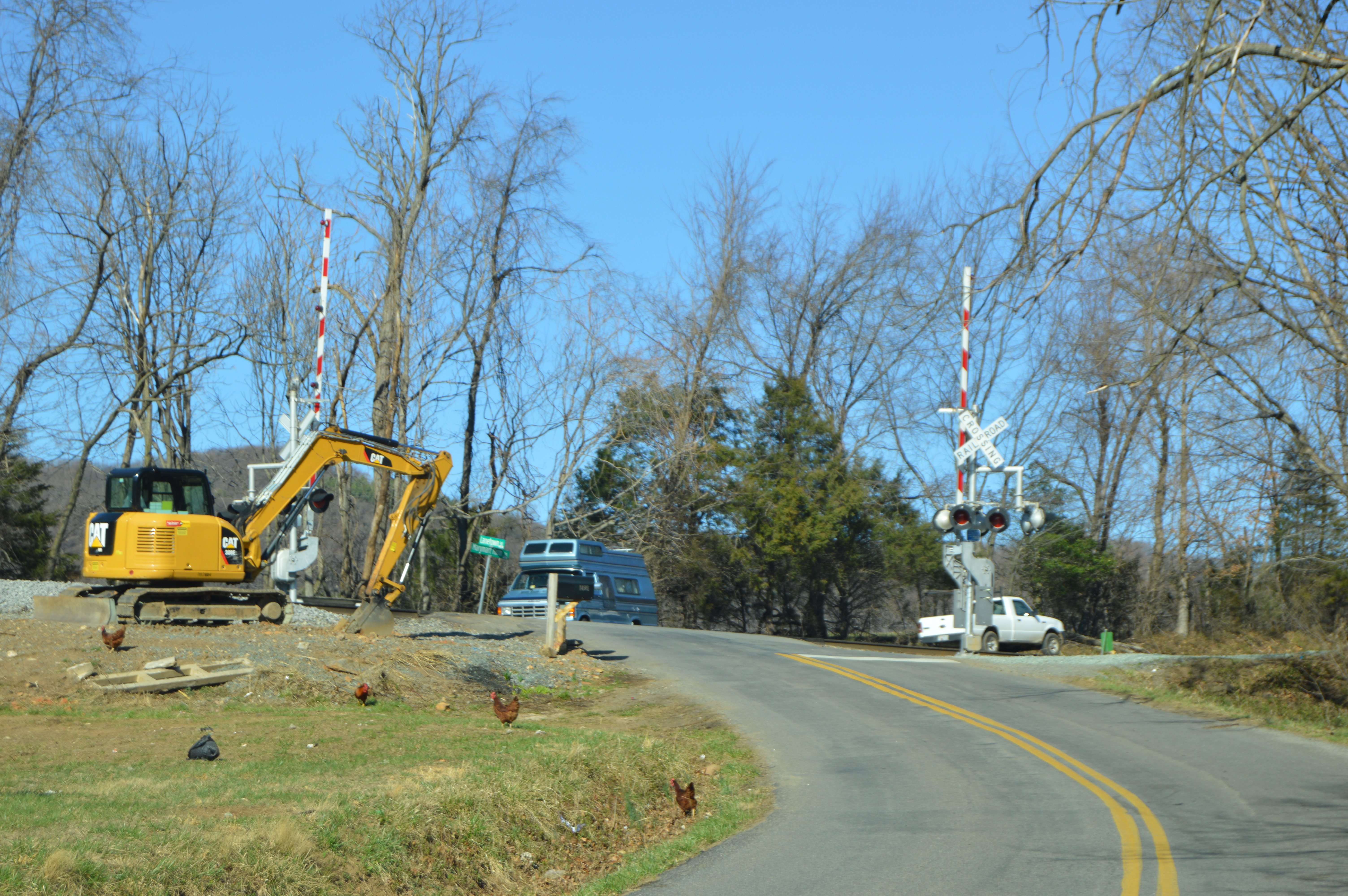 Overview of the level crossing where Lanetown Road crosses a CSX Transportation rail line in Crozet, Virginia, United States. This was the site of the 2018 Crozet, Virginia train crash about a month earlier; presumably the machinery is in place to repair damage at the site.